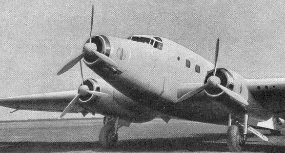 SM-75 photo from L'Aerophile June 1938